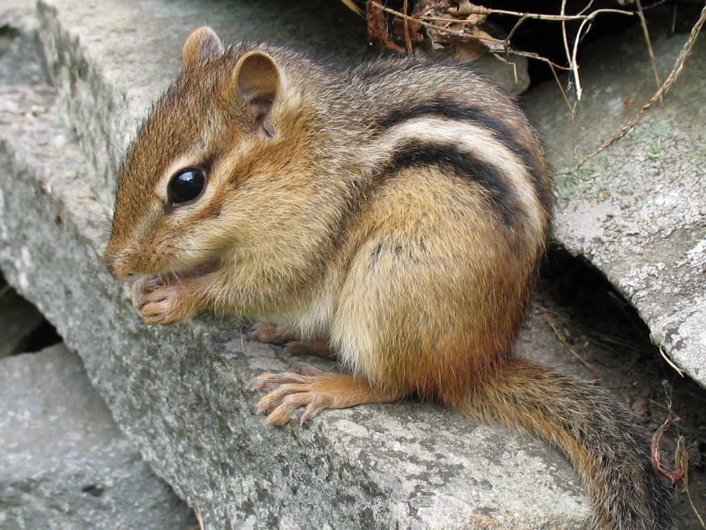 Tamias striatus (Eastern chipmunk) (Tamia rayé)